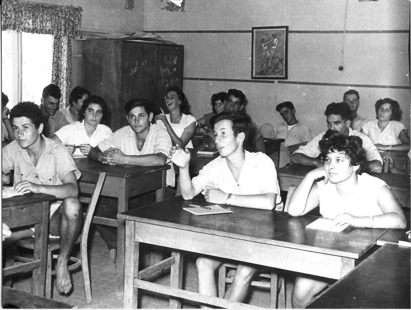 Gan-Samuel 1954 - boys in the classroom